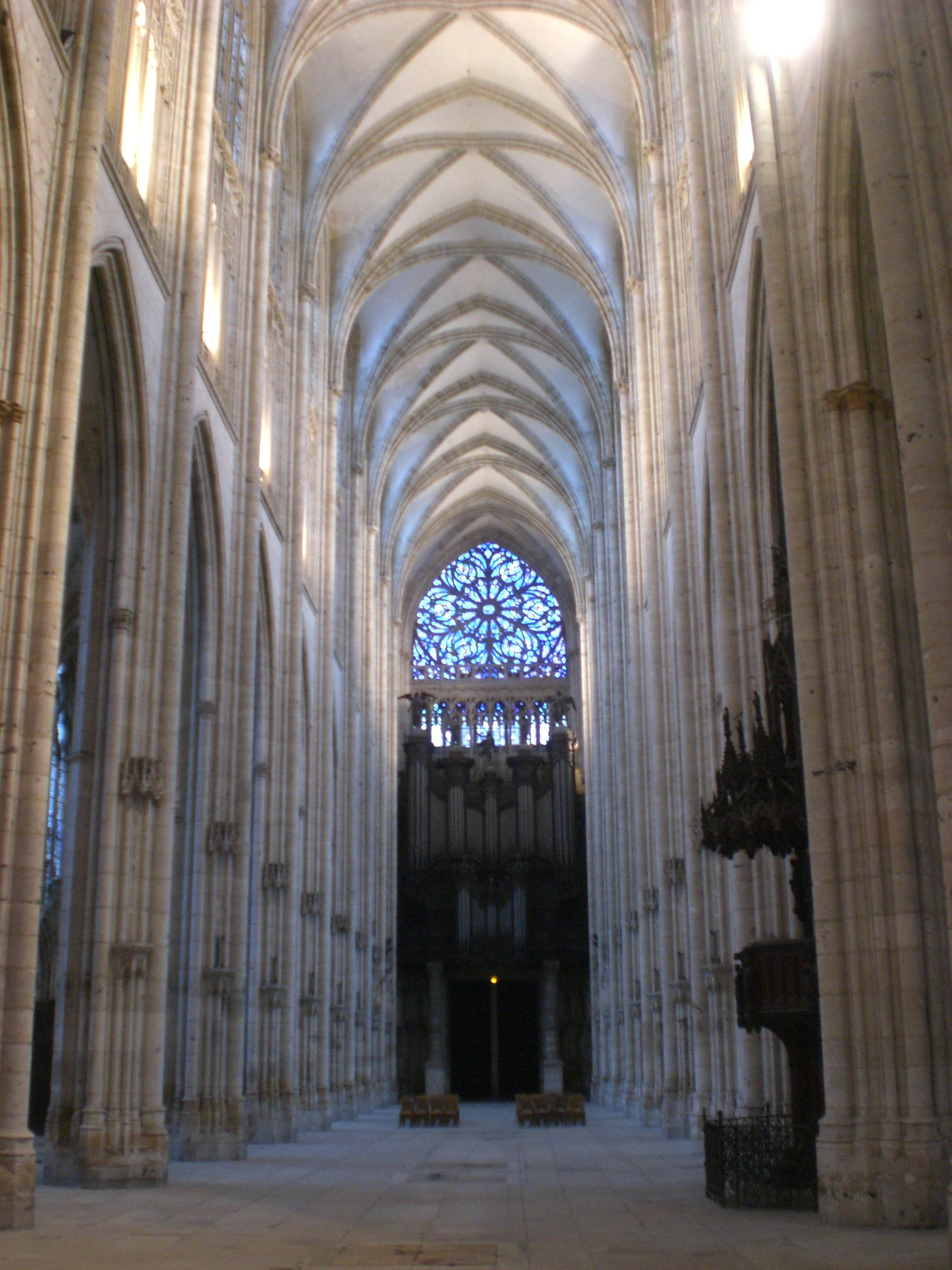 Rouen, St. Ouen's Church, Central Nave.